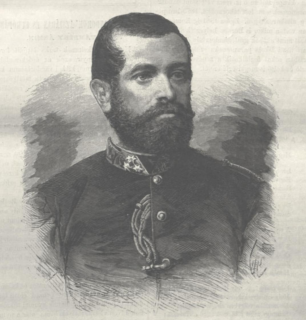 Archduke Johann Salvator of Austria